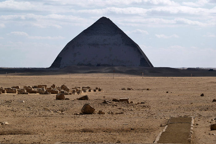 Snofru's bendpyramid, Dahschur own photo, feb 6, 2005 photo: nomo/michael hoefner